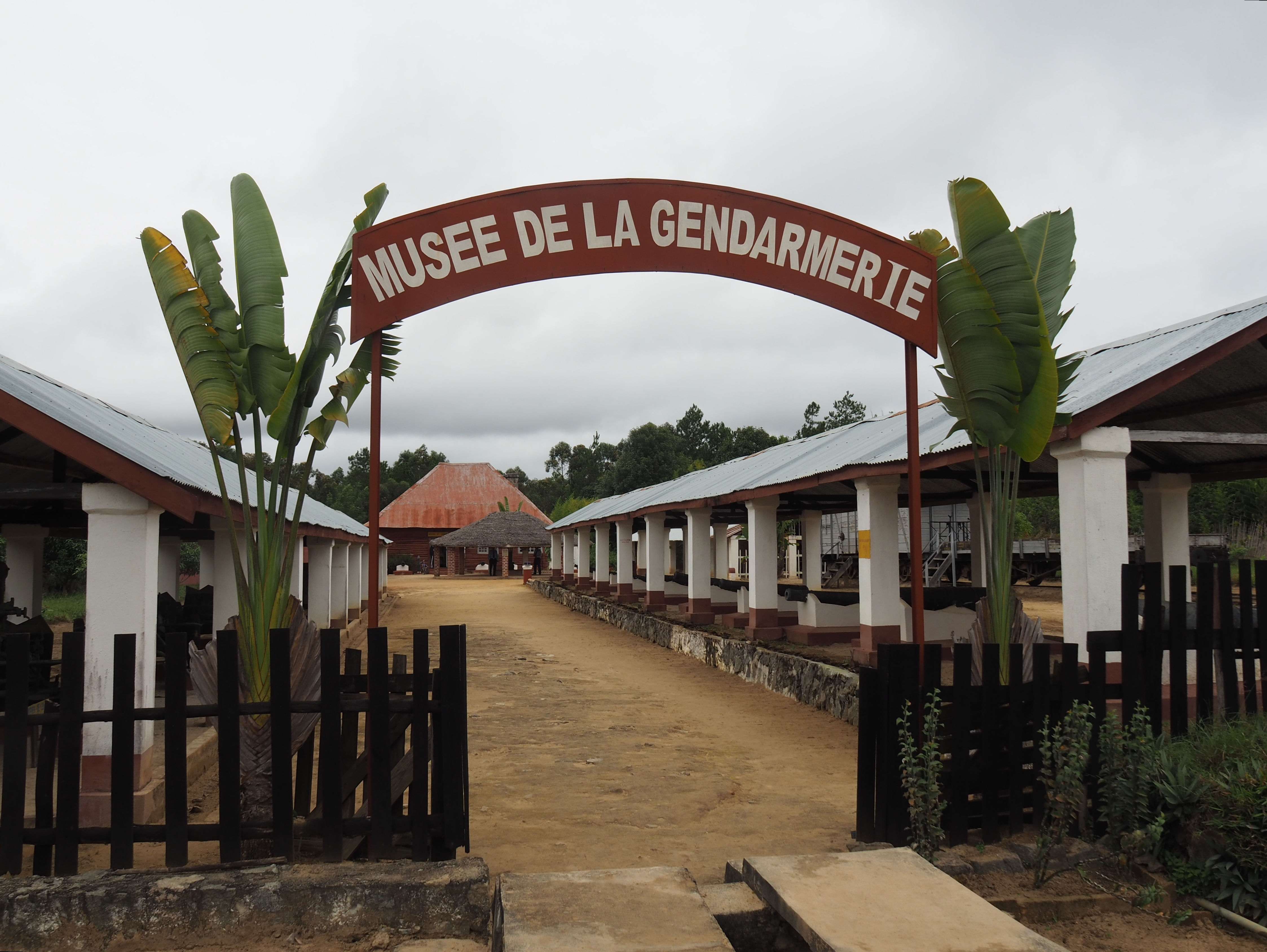 Small museum located at a military school. No photos were allowed but they had colonial canons, photos of past presidents, seized illegal weapons/drugs, and a train car used in a massacre by the French around the time of independence. A local gendarme explains everything in the museum.